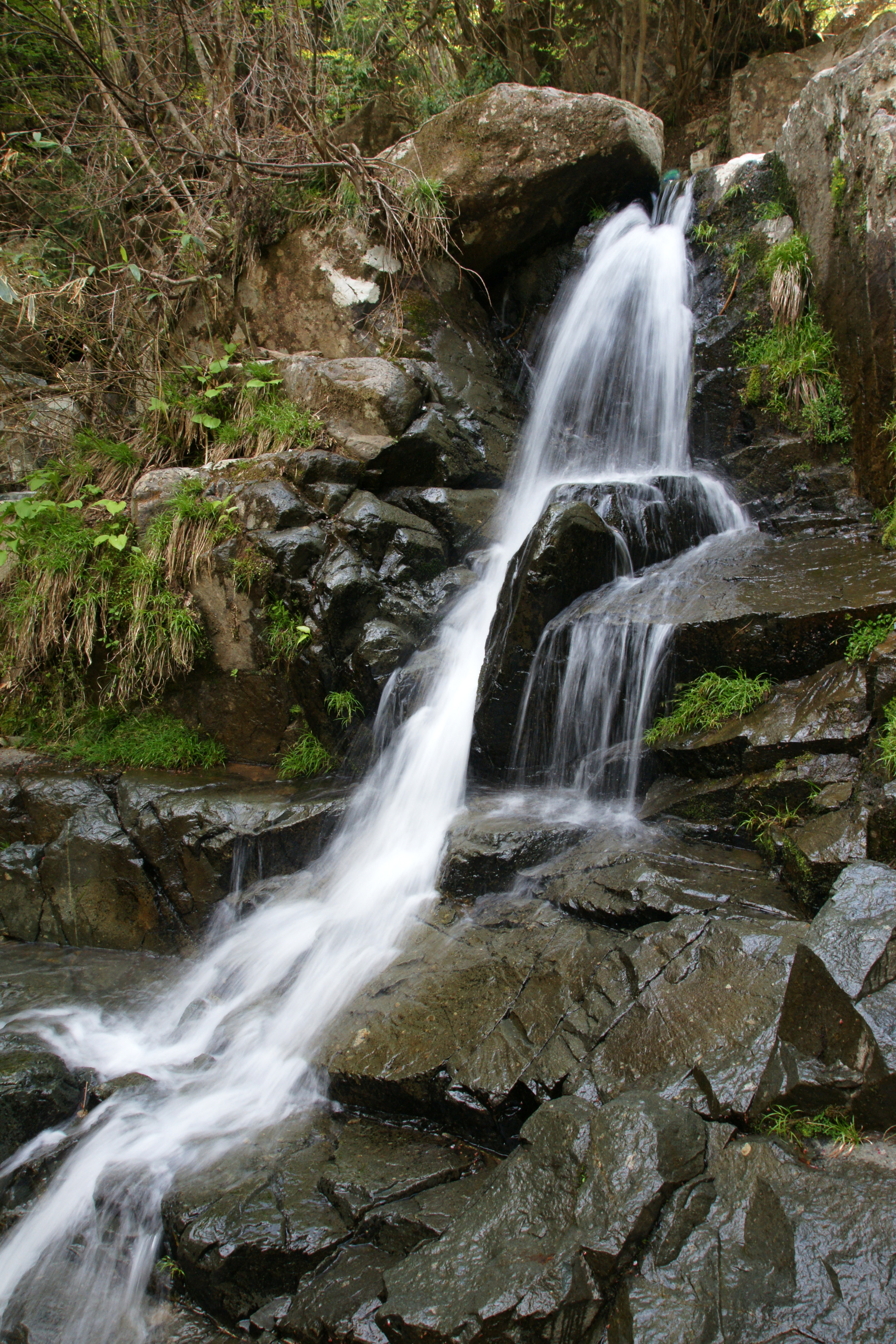 Kuroiwa Falls in Kamikawa, Hyogo prefecture, Japan.